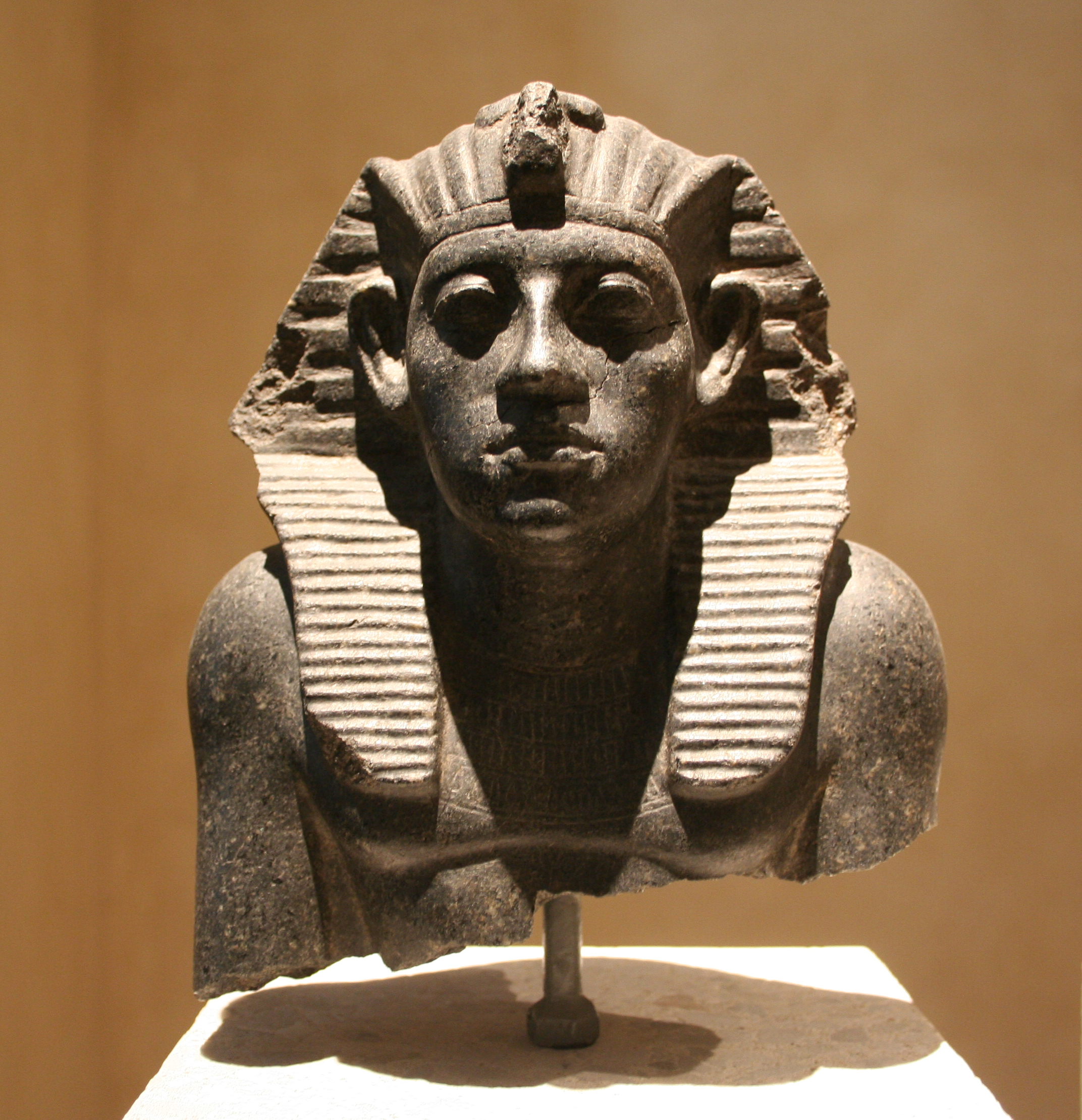 Ägyptisches Museum (Egyptian Museum), Berlin